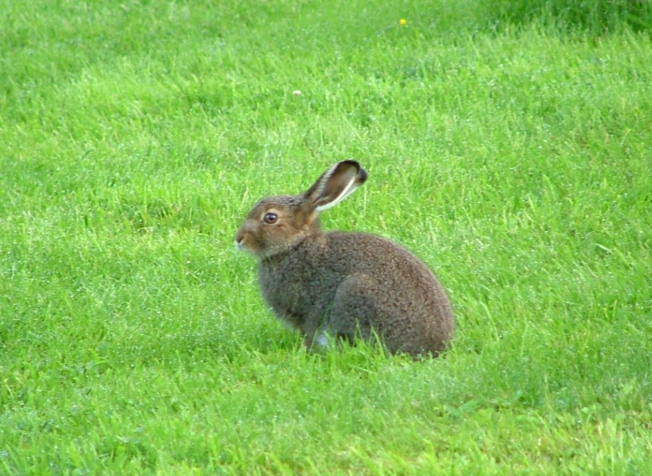 Picture of Lepus timidus on our lawn in Norway a early morning in June.